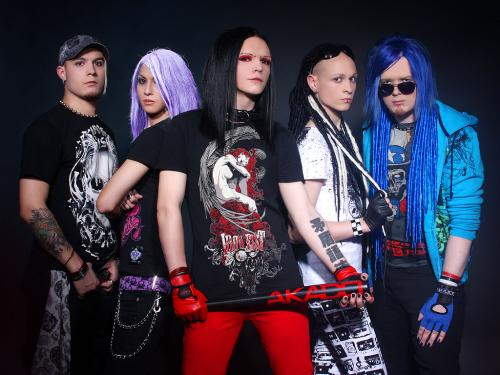 AKADO